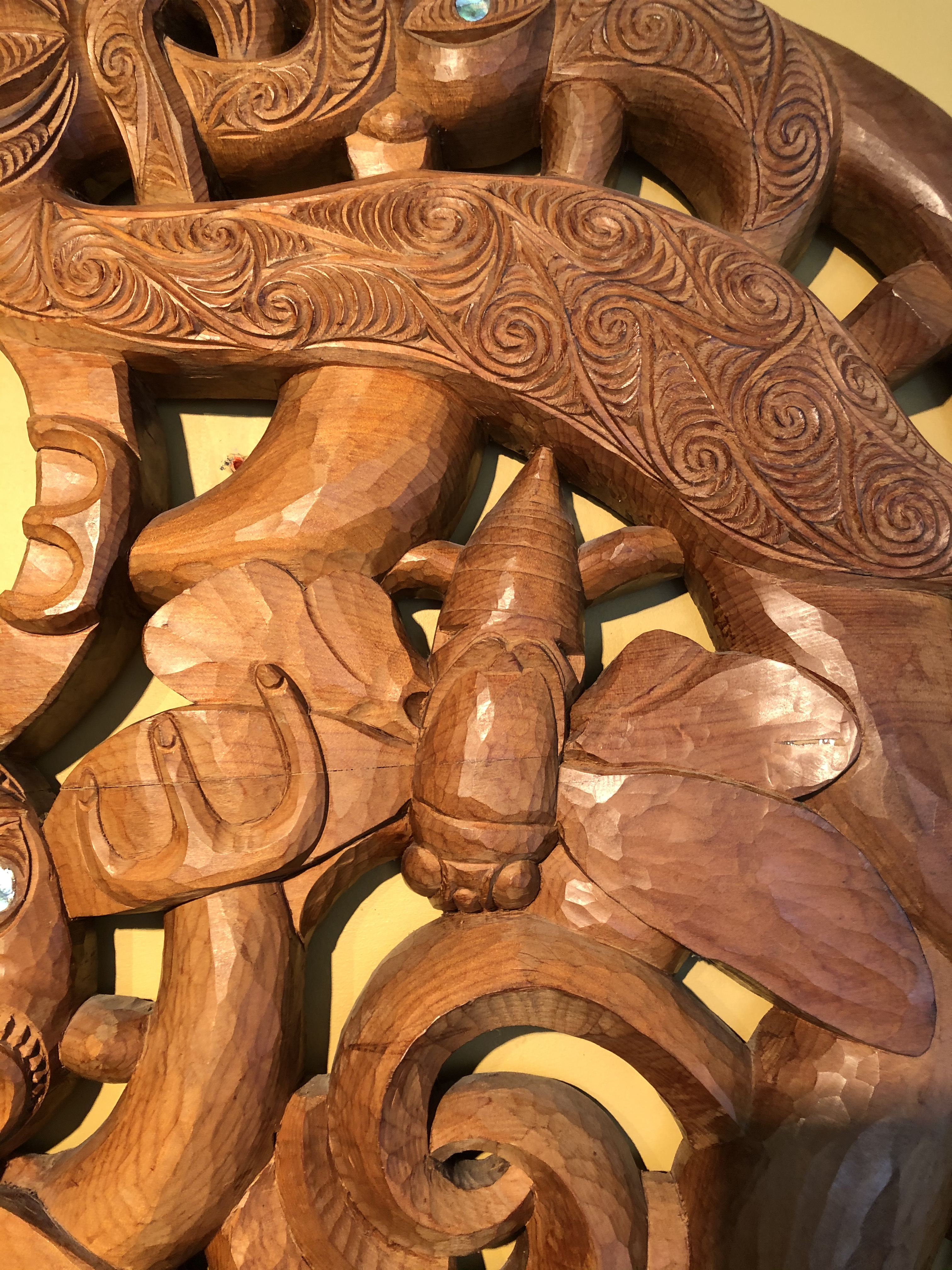 Chorus cicada carved by Denis Conway onto a Maori pare, on display at the New Zealand Arthropod Collection at Landcare Research, Auckland.